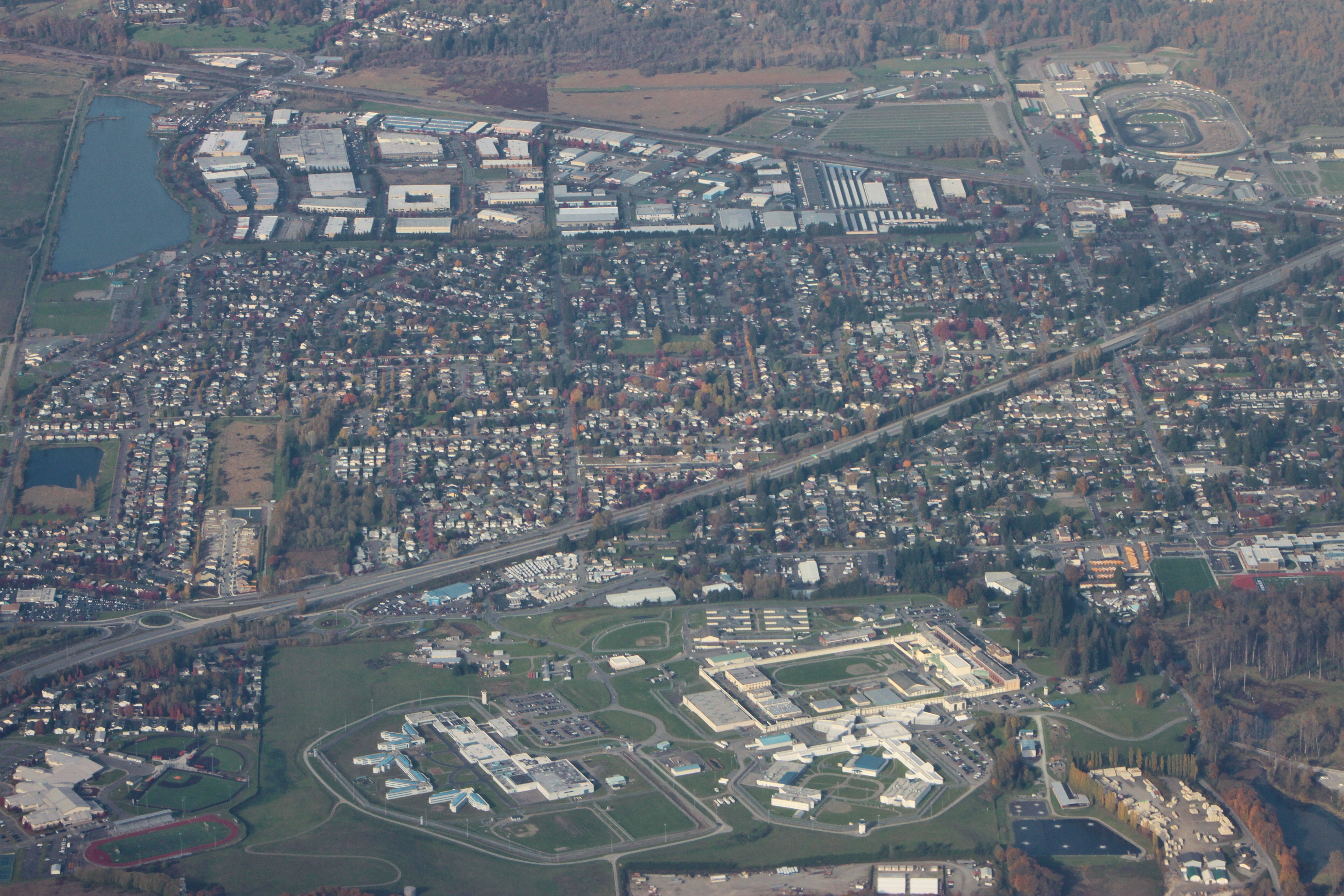 An aerial view of Monroe, Washington, looking north from a plane over the area south of the city. Washington State Route 522 and the Monroe Correctional Complex can be seen at the center and bottom.